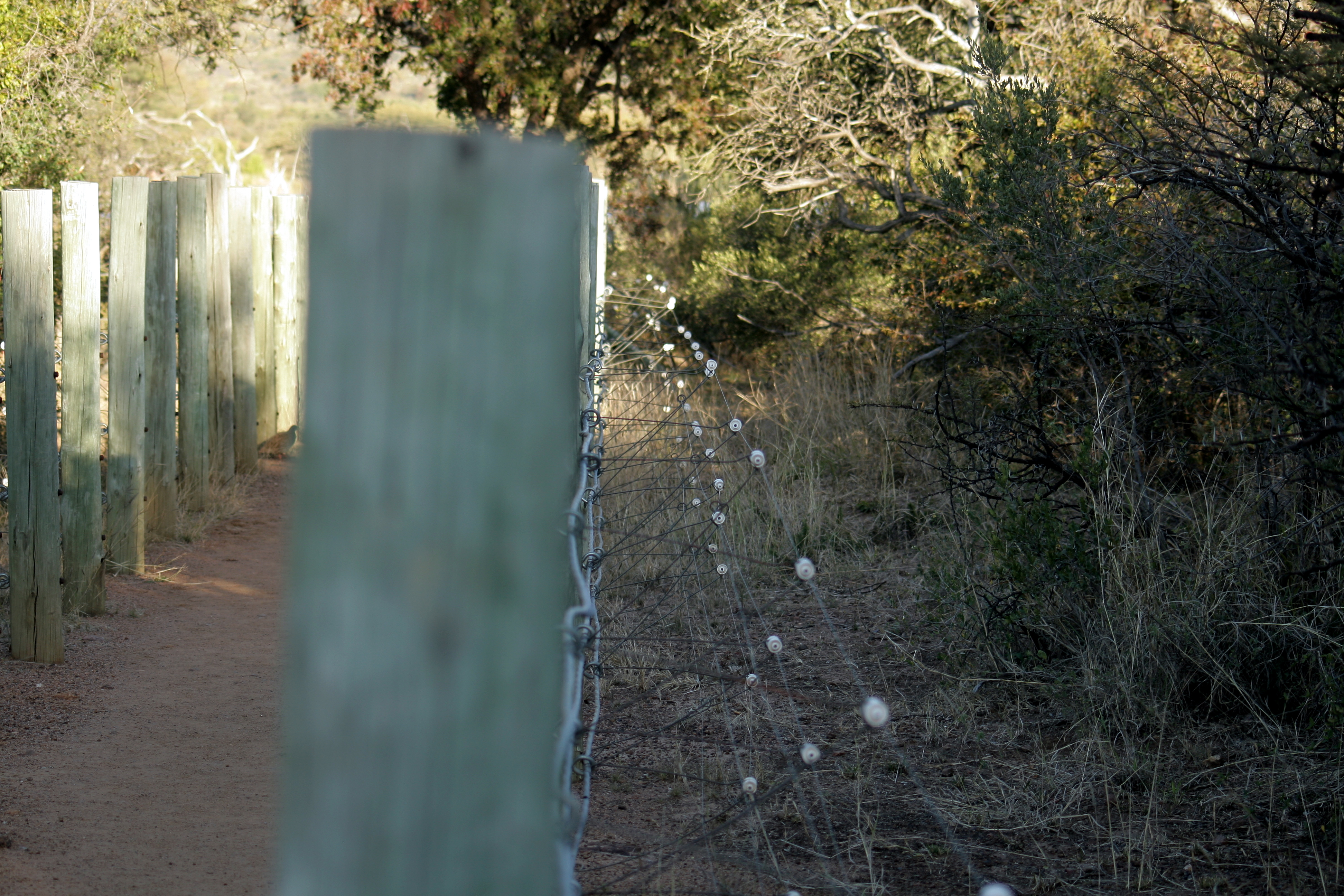 Electric fencing next to a walkway for humans, used to protect against wild animals. Pilanesberg Game Reserve, South Africa